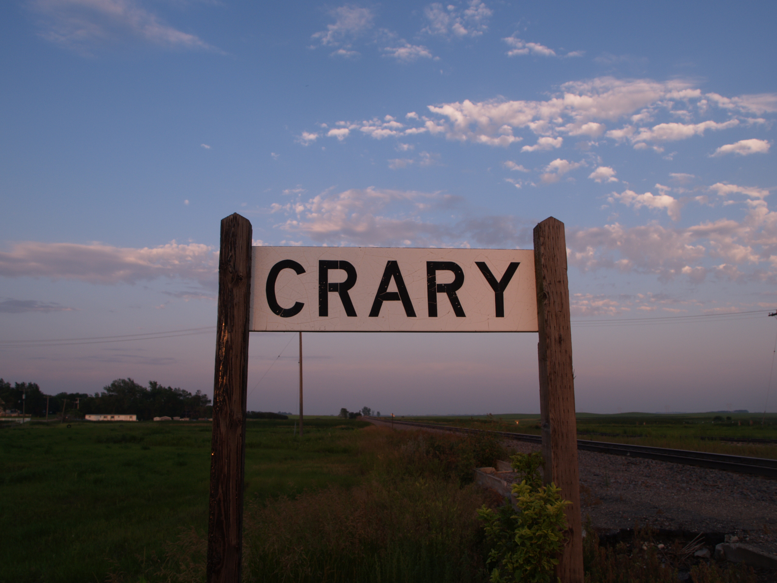 Crary, North Dakota. From .Crary, North Dakota